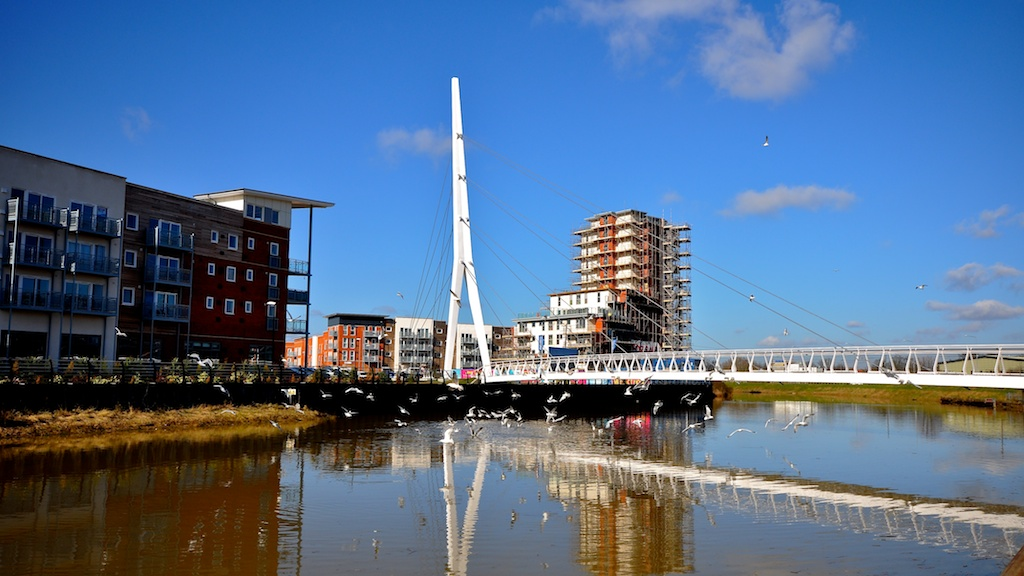 A view of the Sir Bobby Robson Bridge over the River Orwell (the tidal stretch of the River Gipping), in Ipswich, Suffolk, England. It's a cable-stayed bridge for both pedestrians and cyclists. Viewed from the south here, it connects the town on the east bank with the new Voyage development on the west bank. It's 61m long and supported by that single 35m-high pylon. Opened in August 2009, it was named in honour of Sir Bobby Robson, who was manager of Ipswich Town F.C. from 1969 until 1982, guiding them to success in the 1981 UEFA Cup Final. See the category for full details.